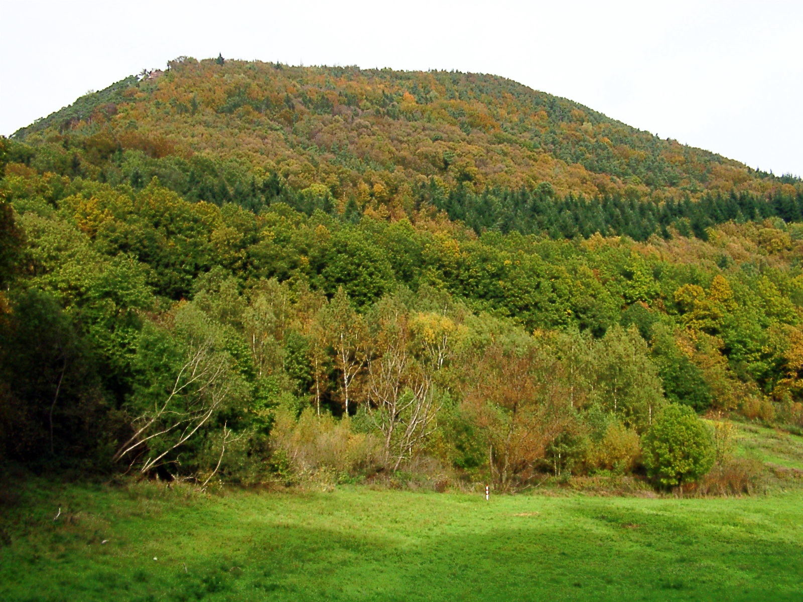 Mountain "Hohen-Berg" in palatinian forest.